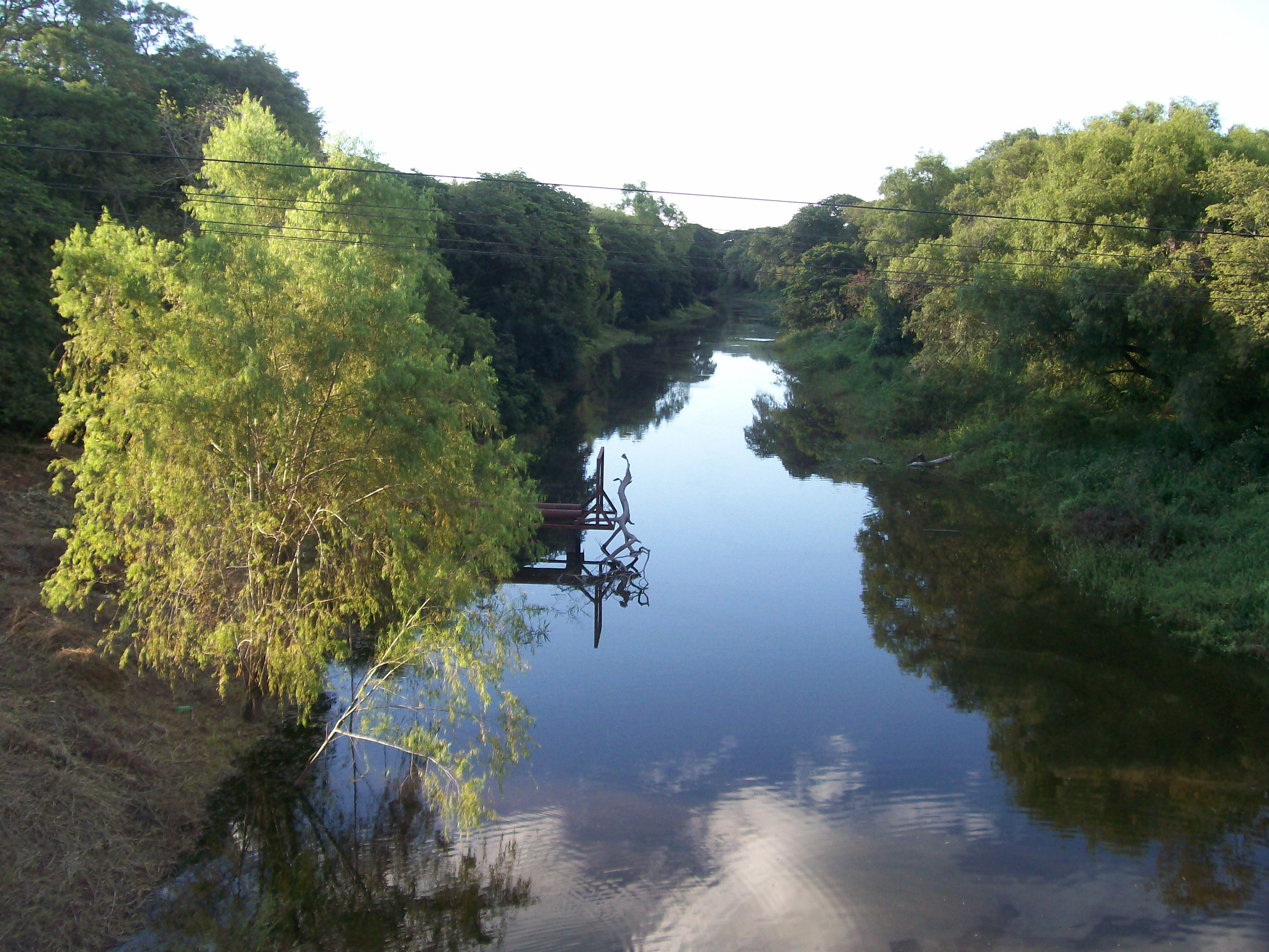 Río Negro (Black River) in Puerto Tirol (Chaco Province, Argentina) seen from the bridge on main entry towards upstream. You can see a water taking that feeds the tannin factory in town center.